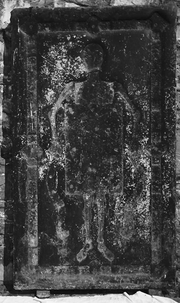 Ref.: PMa_B_286_Gent; Grafplaat Jan Van Eyck; Graf van Jan Van Eyck; photo: Paul M.R.Maeyaert; Sint-Baafsabdij; Gent; Belgium; Oost-Vlaanderen; Cultural heritage; Europeana; Europe|Belgium|Gent; ; © Paul M.R. Maeyaert